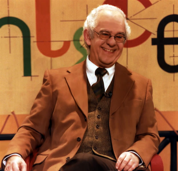 Carlos Pinto Coelho (Lisbon, 1944) was a Portuguese Journalist, Writer, Photographer and media personality.